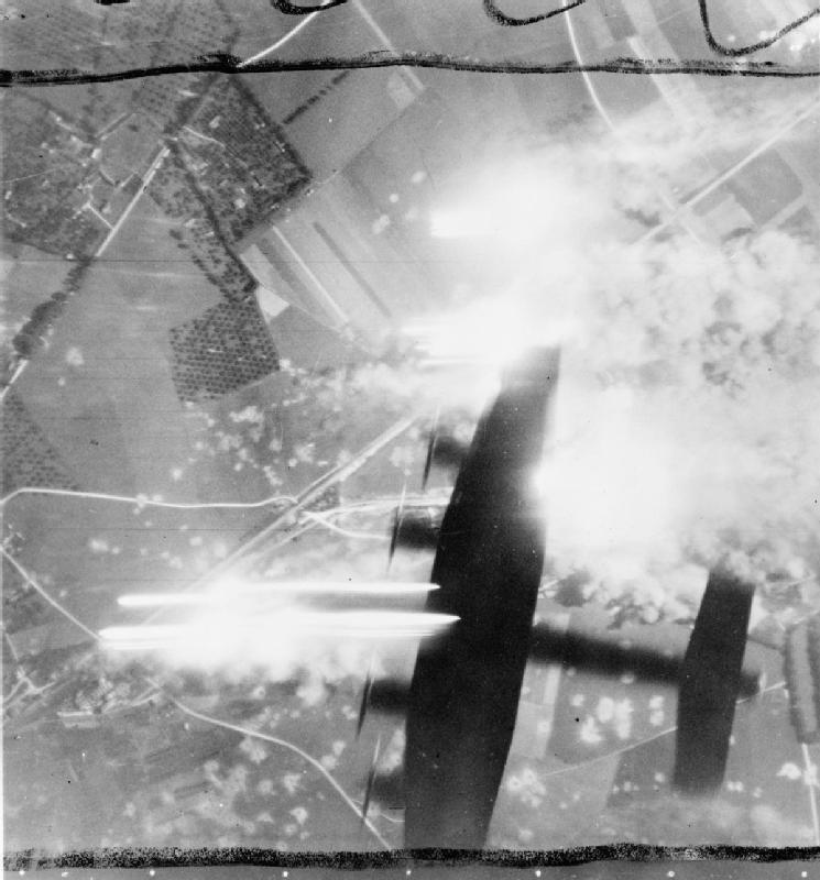 Royal Air Force Bomber Command, 1942-1945. A Handley Page Halifax is silhouetted against target indicators descending over the target during the bombing of a flying-bomb storage dump at Biennais, France, at 3.38 am on 6 July 1944